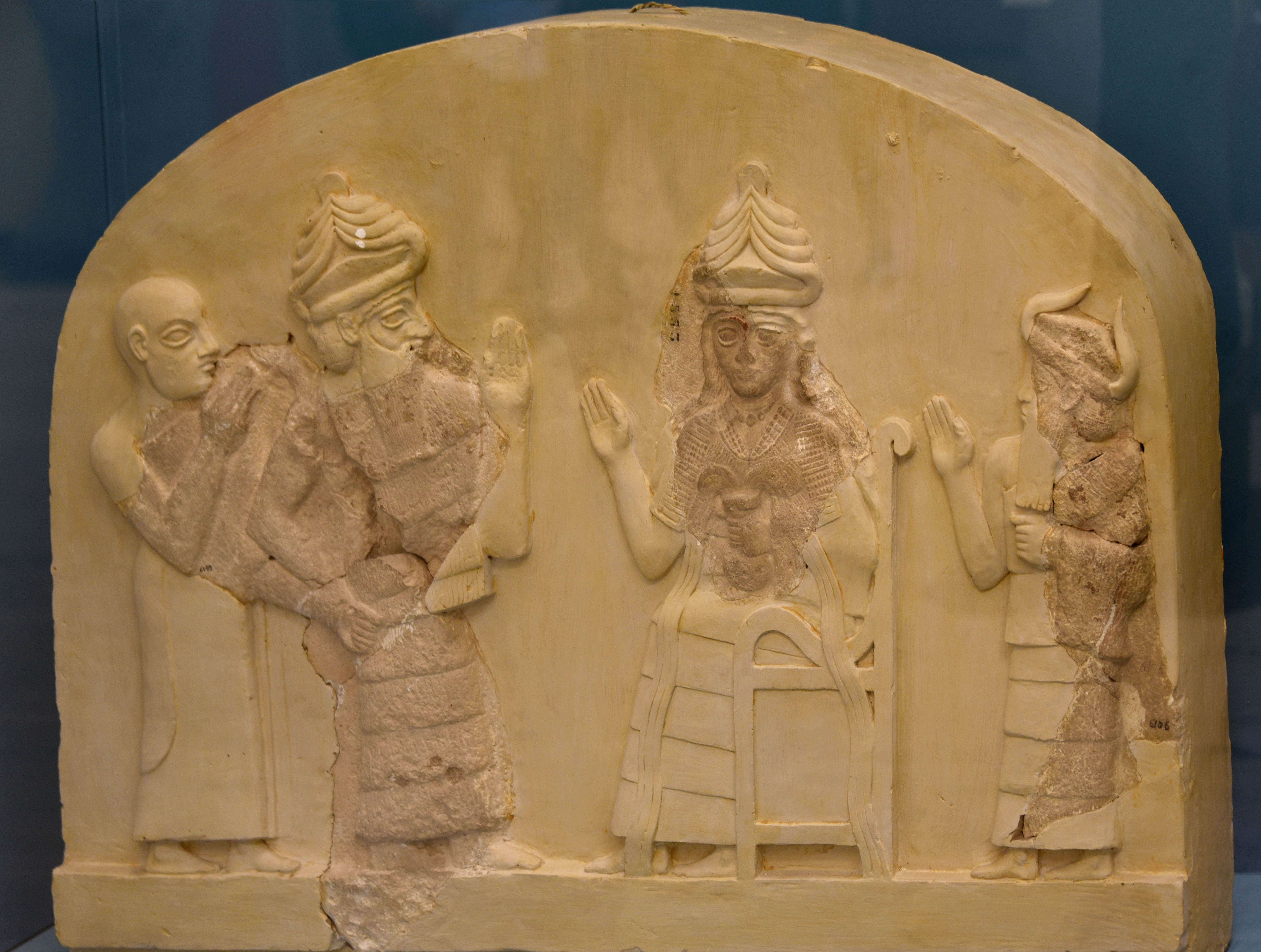 Gudea being led by Ningishzida into the presence of a deity who is seated on a throne